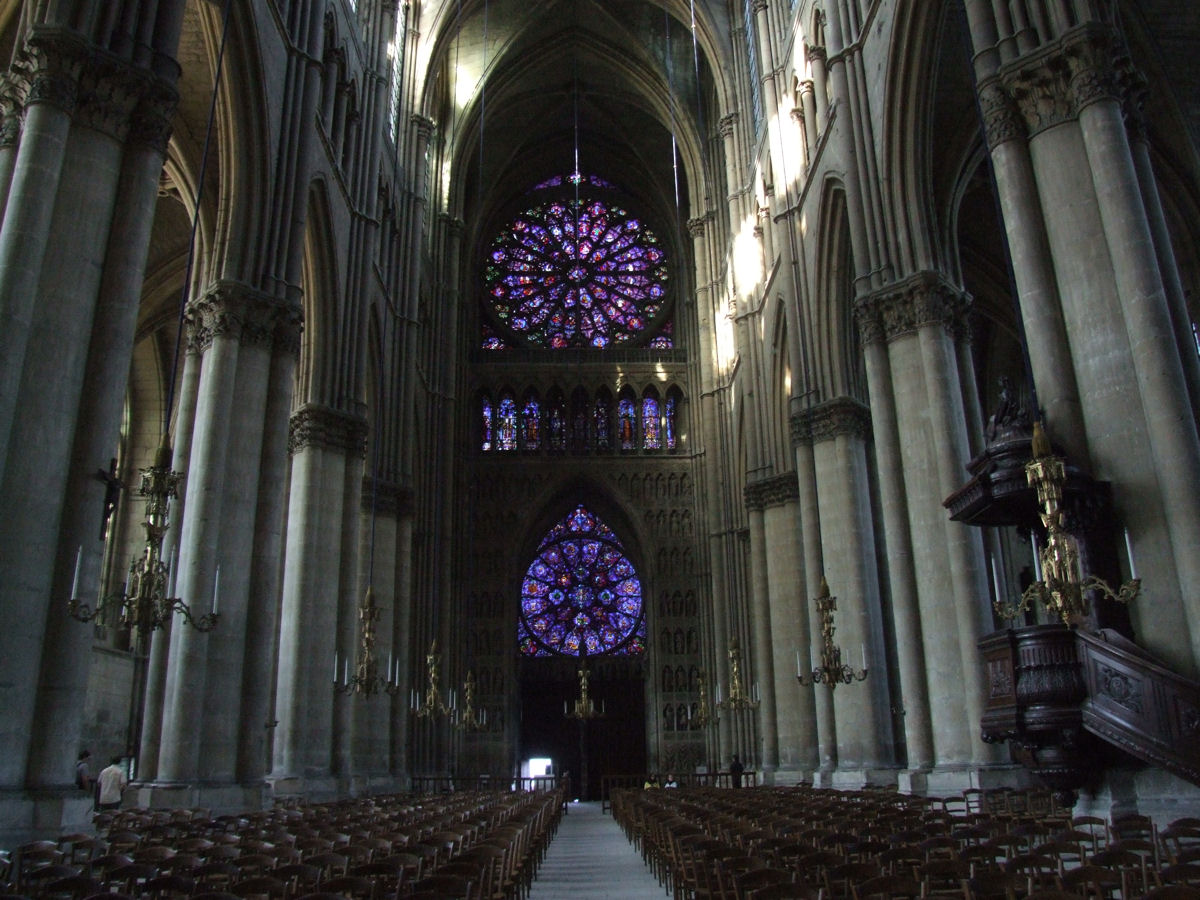 Cathedral Notre-Dame de Reims, France - Interior - Nave looking west showing 2 rose windows